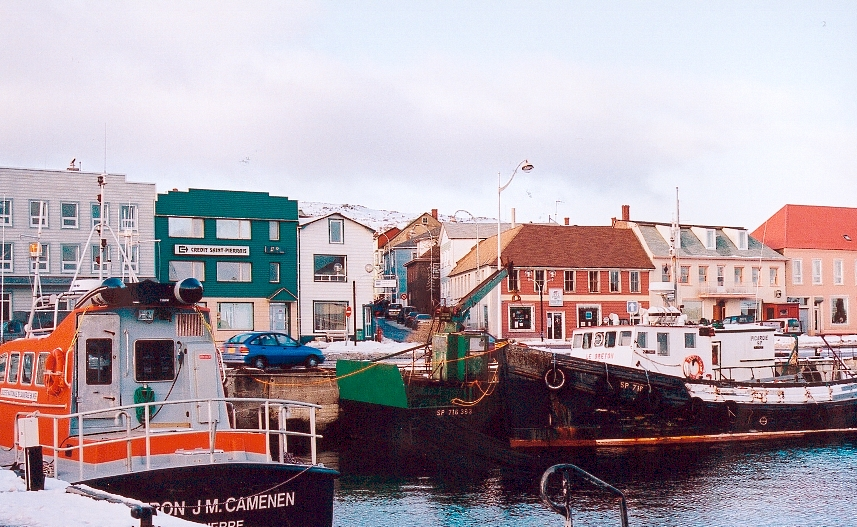 Port of Saint-Pierre (Saint-Pierre-et-Miquelon)